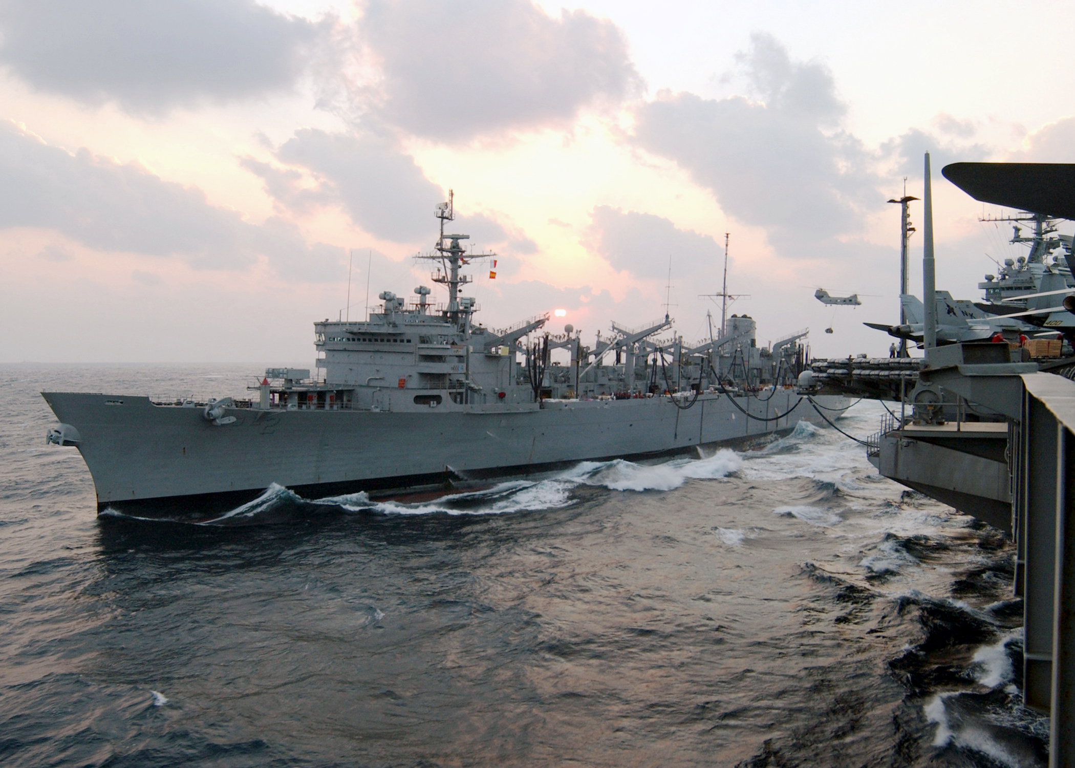 At sea with USS Abraham Lincoln (CVN 72) Nov. 7, 2002 -- USS Camden (AOE 2) provides fuel, stores, and supplies to Lincoln during a recent conventional replenishment (CONREP) and underway replenishment (UNREP) at sea. Abraham Lincoln and Carrier Air Wing Fourteen (CVW-14) are on a regularly scheduled six-month deployment conducting combat missions in support of Operation Enduring Freedom and Operation Southern Watch. U.S. Navy photo by Photographer’s Mate 2nd Class Julie Matyascik. (RELEASED)